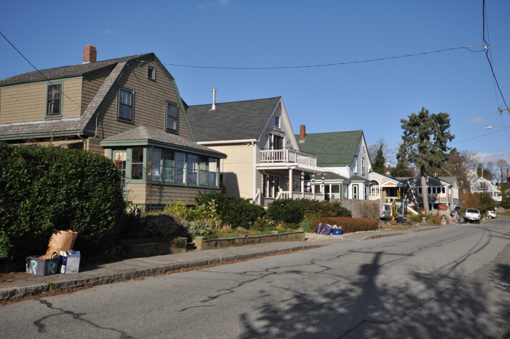 Rocky Neck Historic District, Gloucester, Massachusetts.